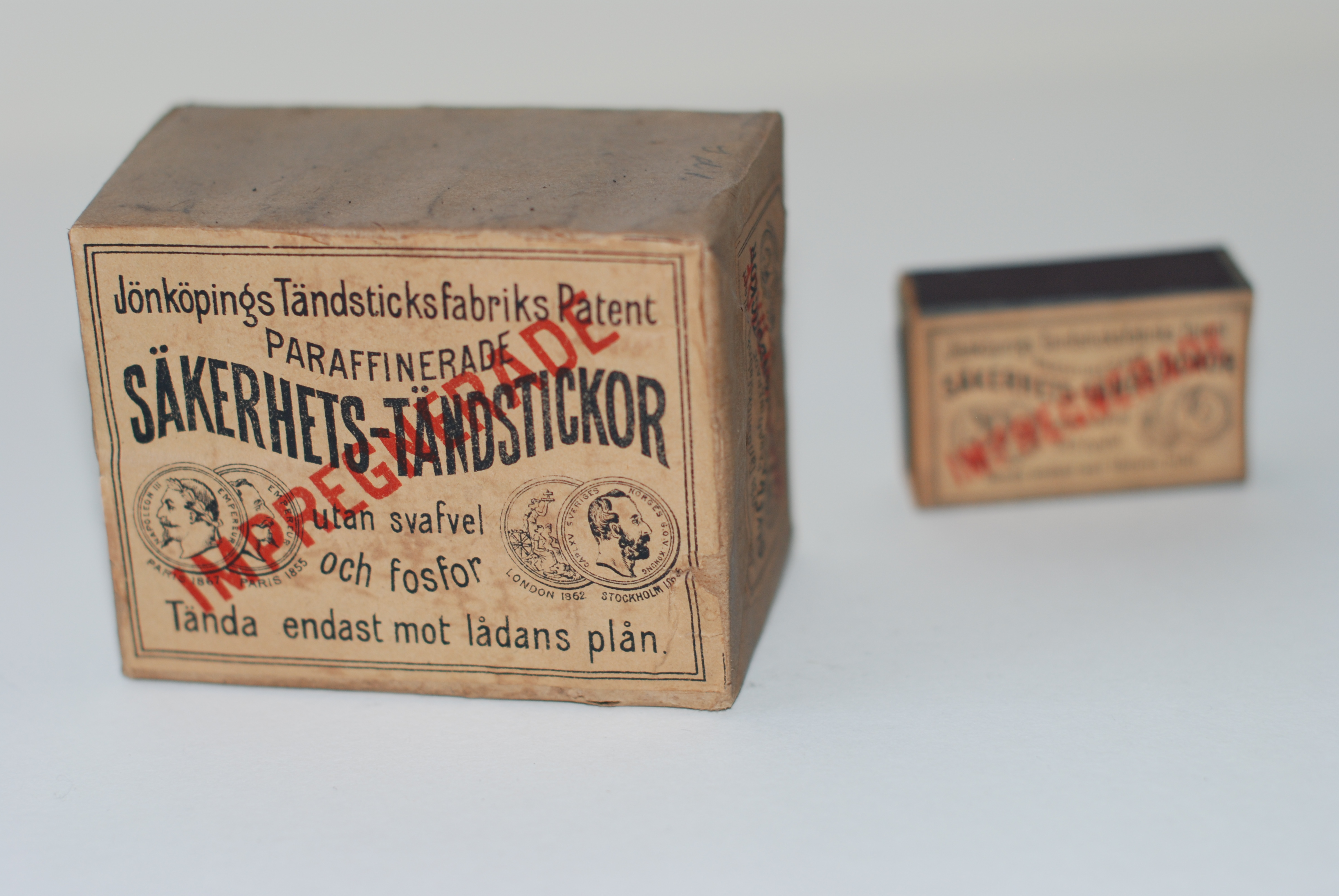 Patented secure matches from Jönköpings Tändsticksfabrik, early 20th Century. Box to the right, package af boxes to the left. This items are exhibits from Halwylska museet in Stockholm, Sweden, XIV L.d.1 and XIV L.a.3 respectively. Photo is taken in a joint venture between Halwylska museet and Wikimedia Sverige.